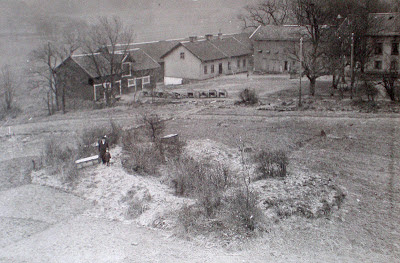 Stora Härlanda, a mansion in Gothenburg, Sweden.